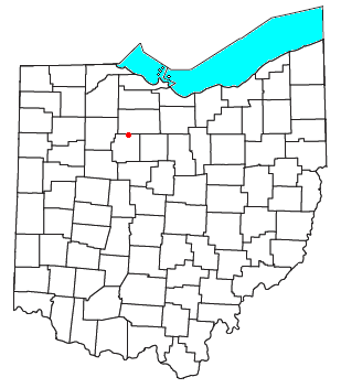 Locator map of the unincorporated community of McCutchenville in Wyandot County, Ohio, United States.